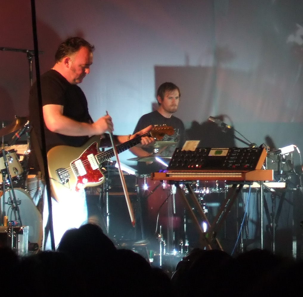 Adrian Utley and Geoff Barrow ; concert of Portishead